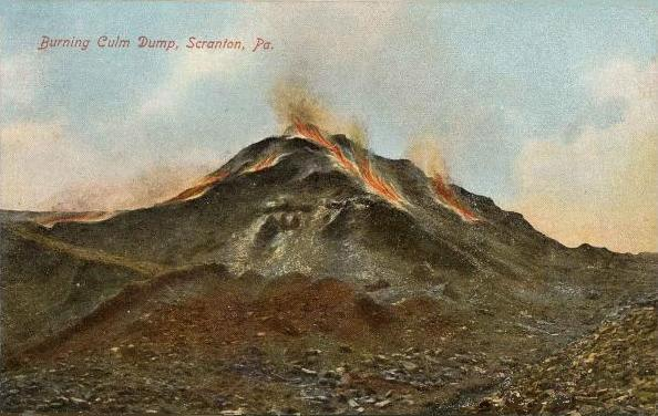 Burning culm dump, Scranton, Pennsylvania, United States. Culms are huge dumps of coal mine waste some of which burn incessantly.